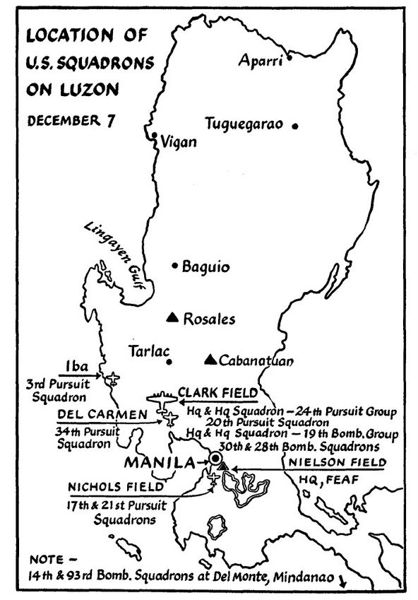 Far East Air Force Philippines unit deployment map - 7 December 1941